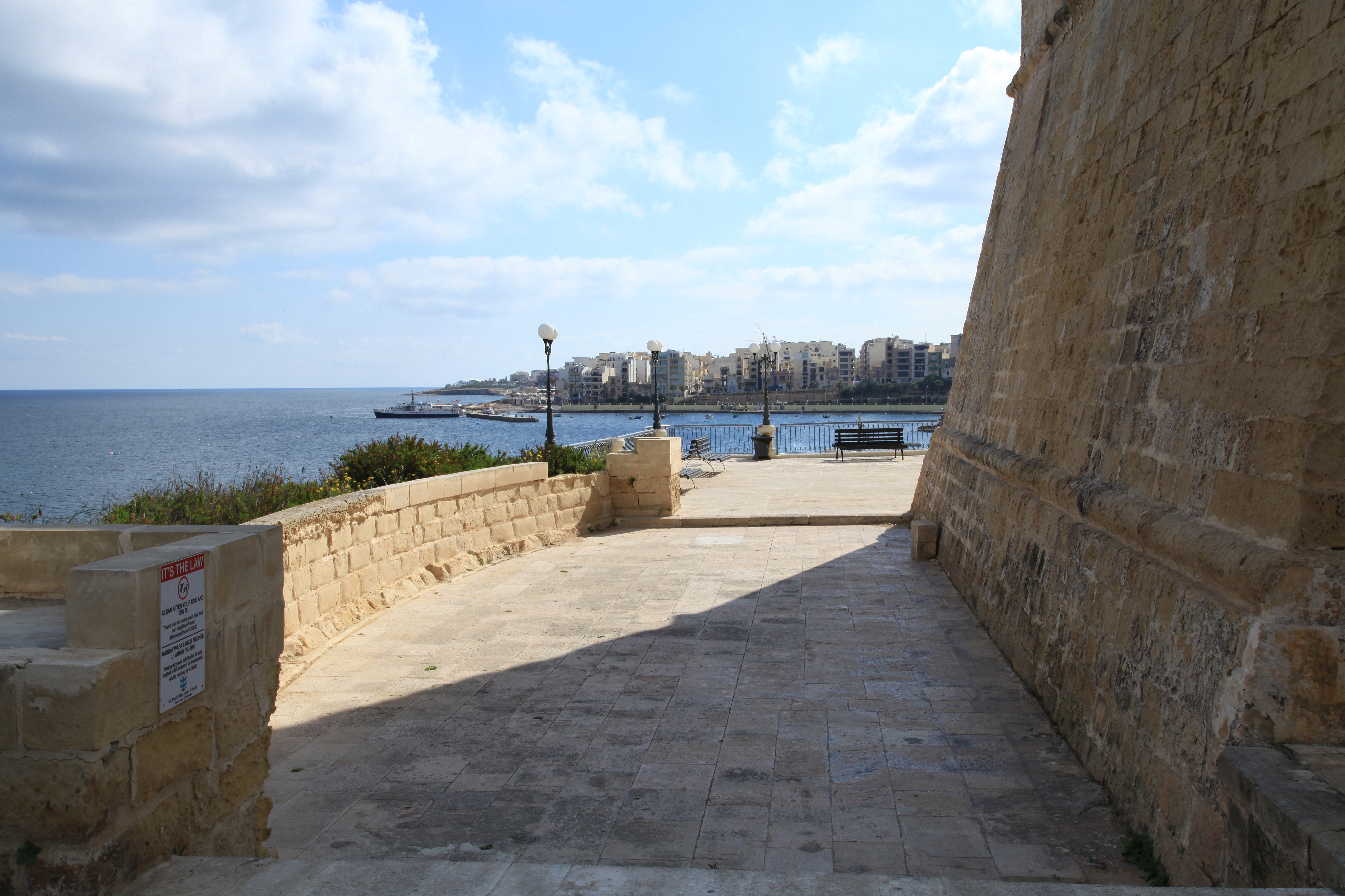 St. Paul's Bay Tower, Triq San Frangisk/Triq San Ġiraldu in St. Paul's Bay, Malta